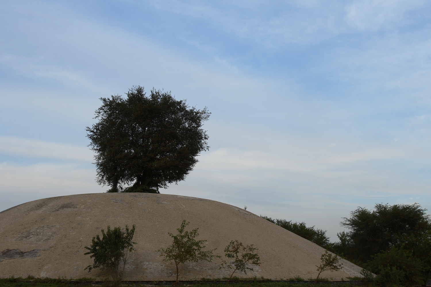 Zhaoling, Shenyang